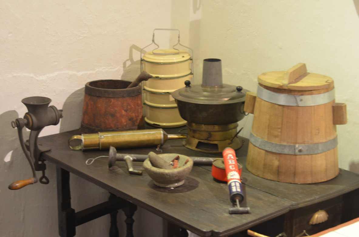 Kitchen utensils of a 1920 / 1930's kitchen